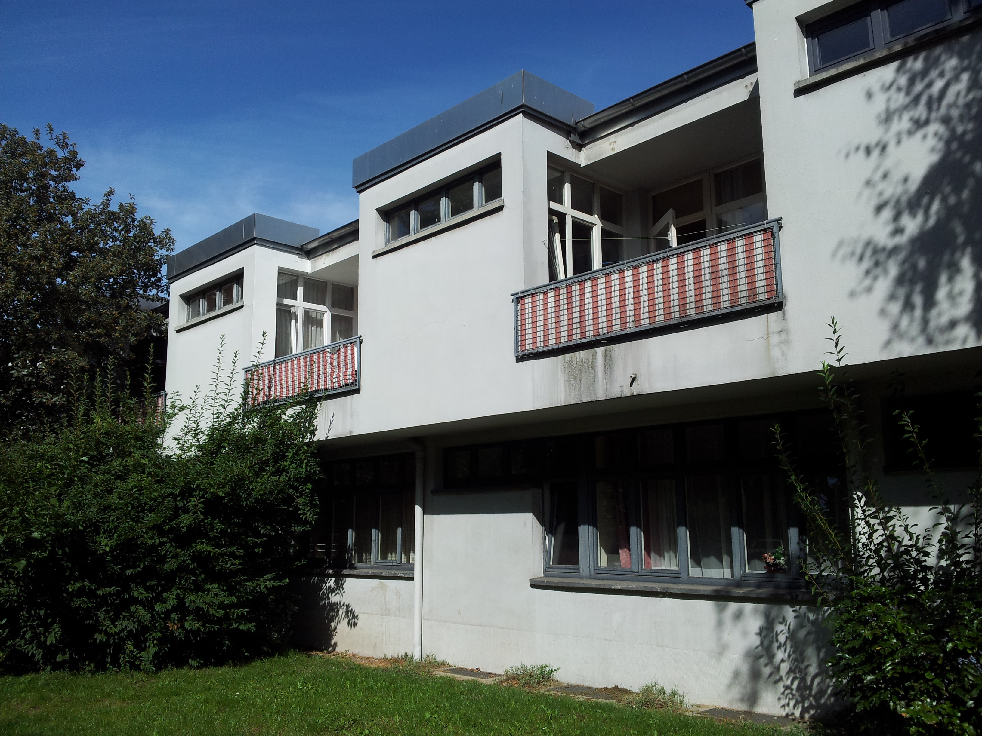 Houses designed 1929 by Mart Stam during the New Frankfurt project.